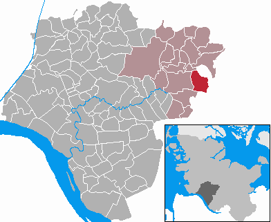 This map shows the area of the municipality Quarnstedt in the Kreis (district) Steinburg, Schleswig-Holstein, Germany.